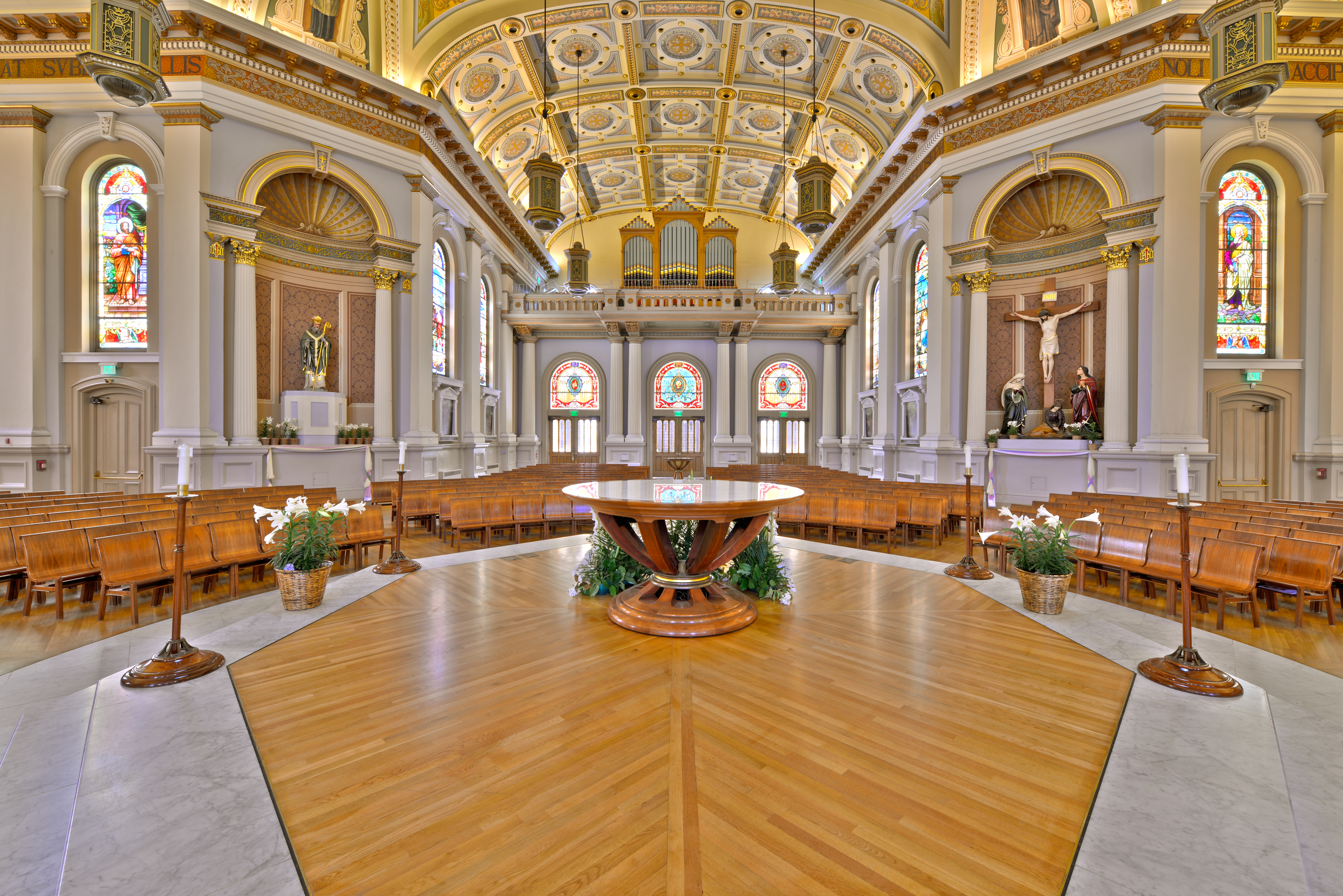 Cathedral Basilica of St. Joseph (San Jose, California), interior